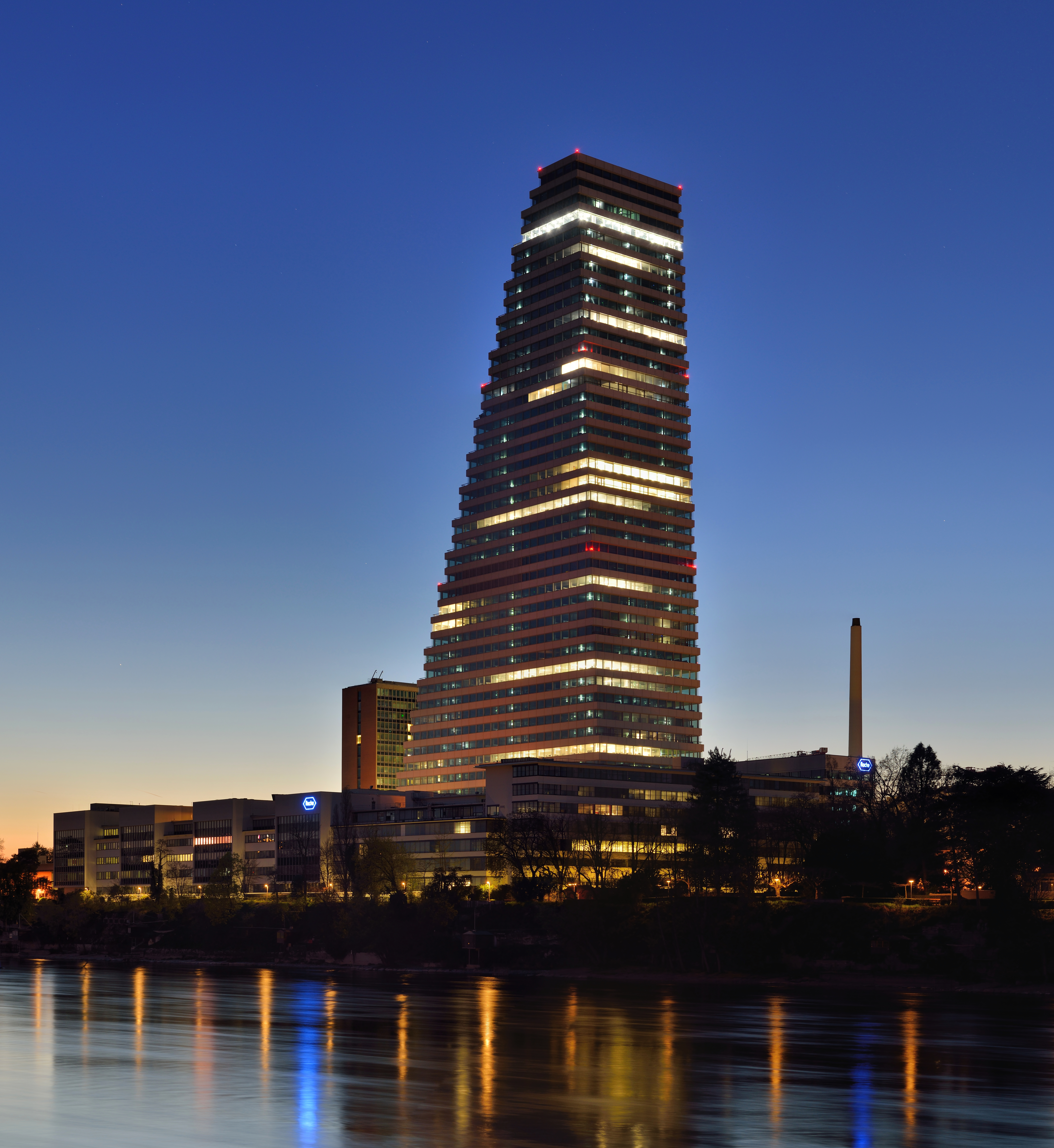 Basel: Roche Tower at dusk